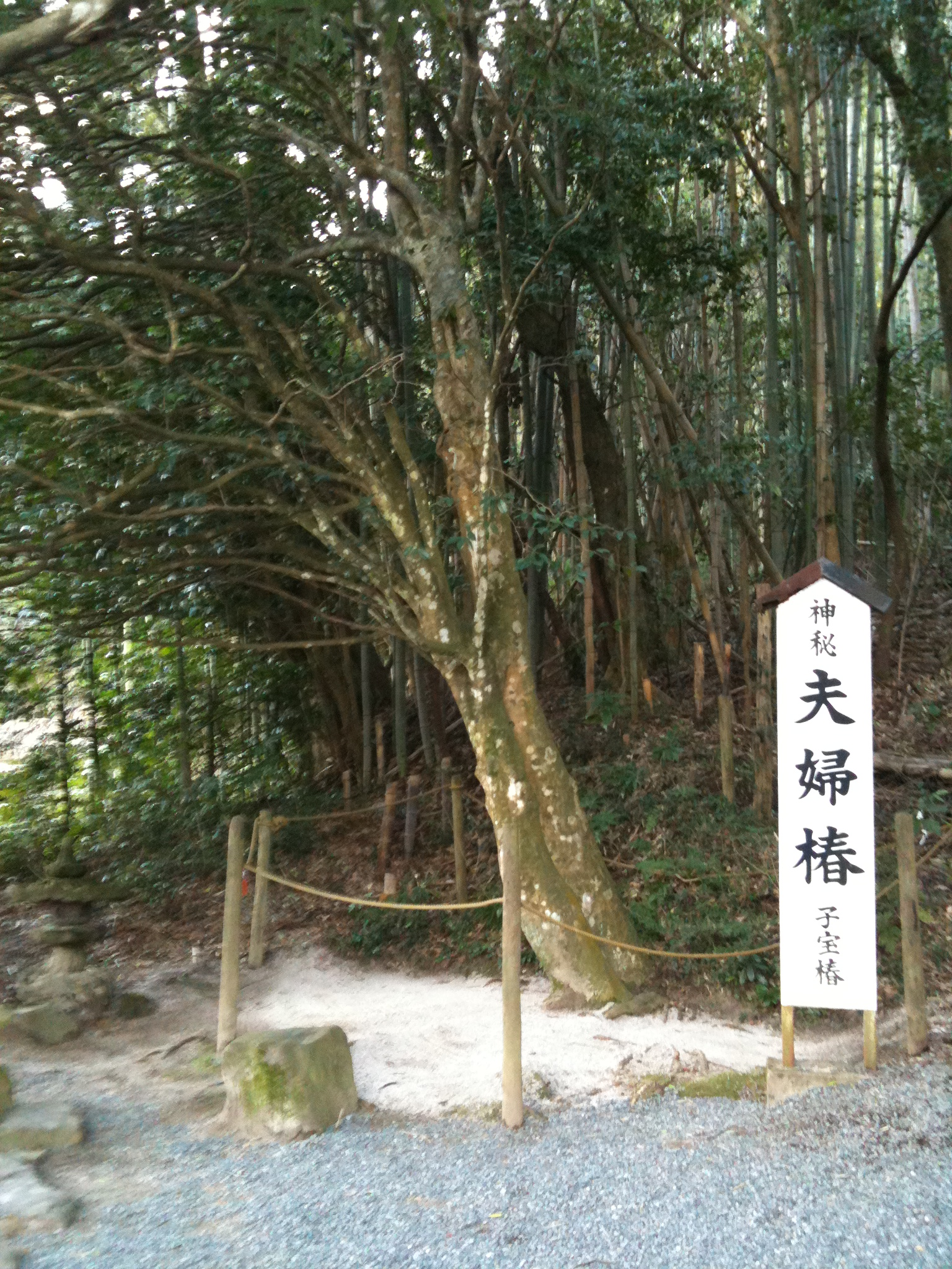 Yaegaki Shrine, in Matsue, Shimane Prefecture, Japon En-musubi; Kojiki; Sunanoo, Kushidana